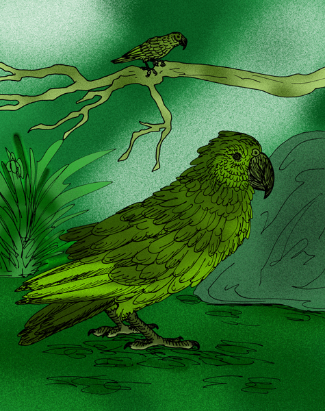 Restoration of the giant parrot, Heracles inexpectatus, of Early Miocene Saint Batham, New Zealand, as compared to the extinct parrot, Nelepsittacus donmertoni